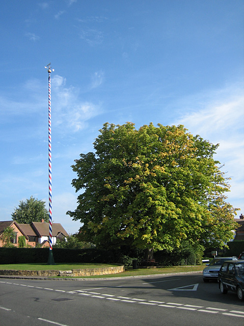 Welford-on-Avon Maypole